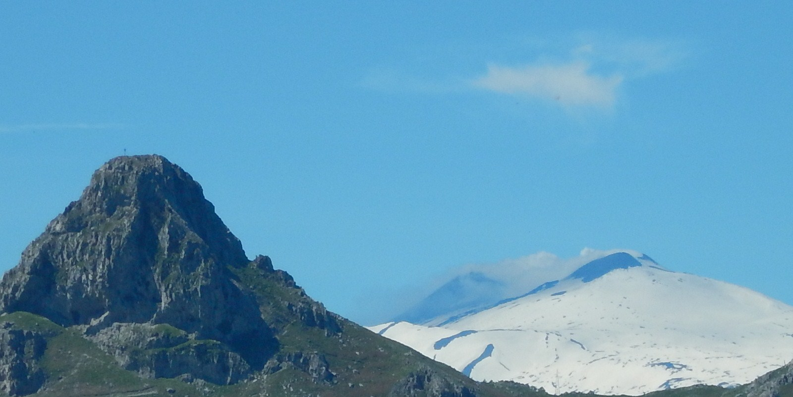 Etna and Rocca Salvatesta, monti Peloritani,sicily